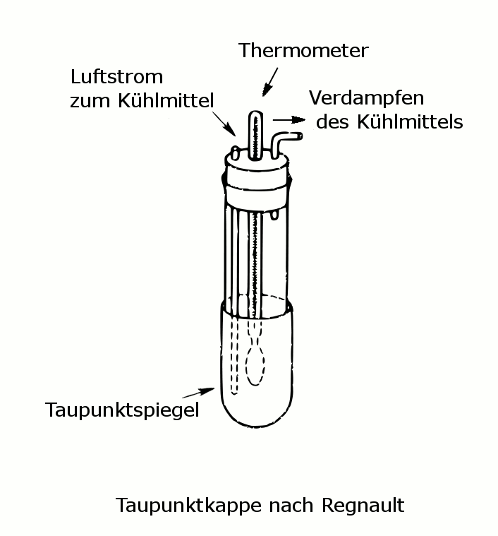 dewpoint cap according to Regnault